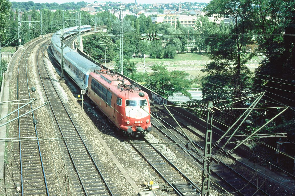 DB class 103 electric locomotive number 101 seen in Stuttgart on the Neckar bridge, train numer IR 2194